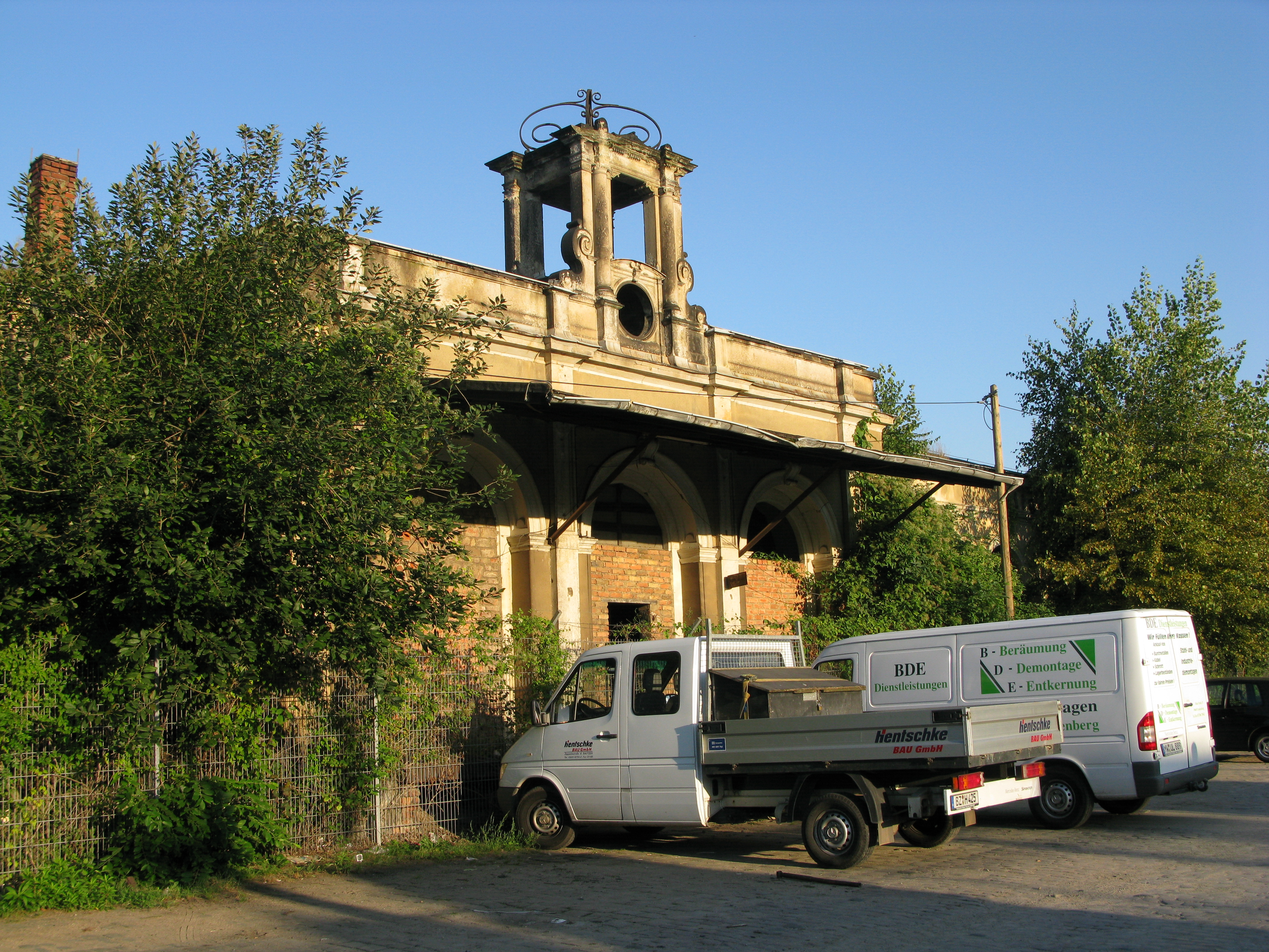 Old main entrance of station Leipziger Bahnhof in Dresden (station from 1857) Alter Haupteingang des Empfangsgebäudes des Leipziger Bahnhofs in Dresden von 1857 (Zustand: 2009)